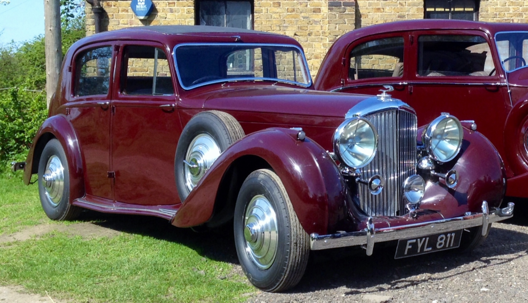 Bentley MK V (DVLA) first registered 5 June 1940, 4410 cc